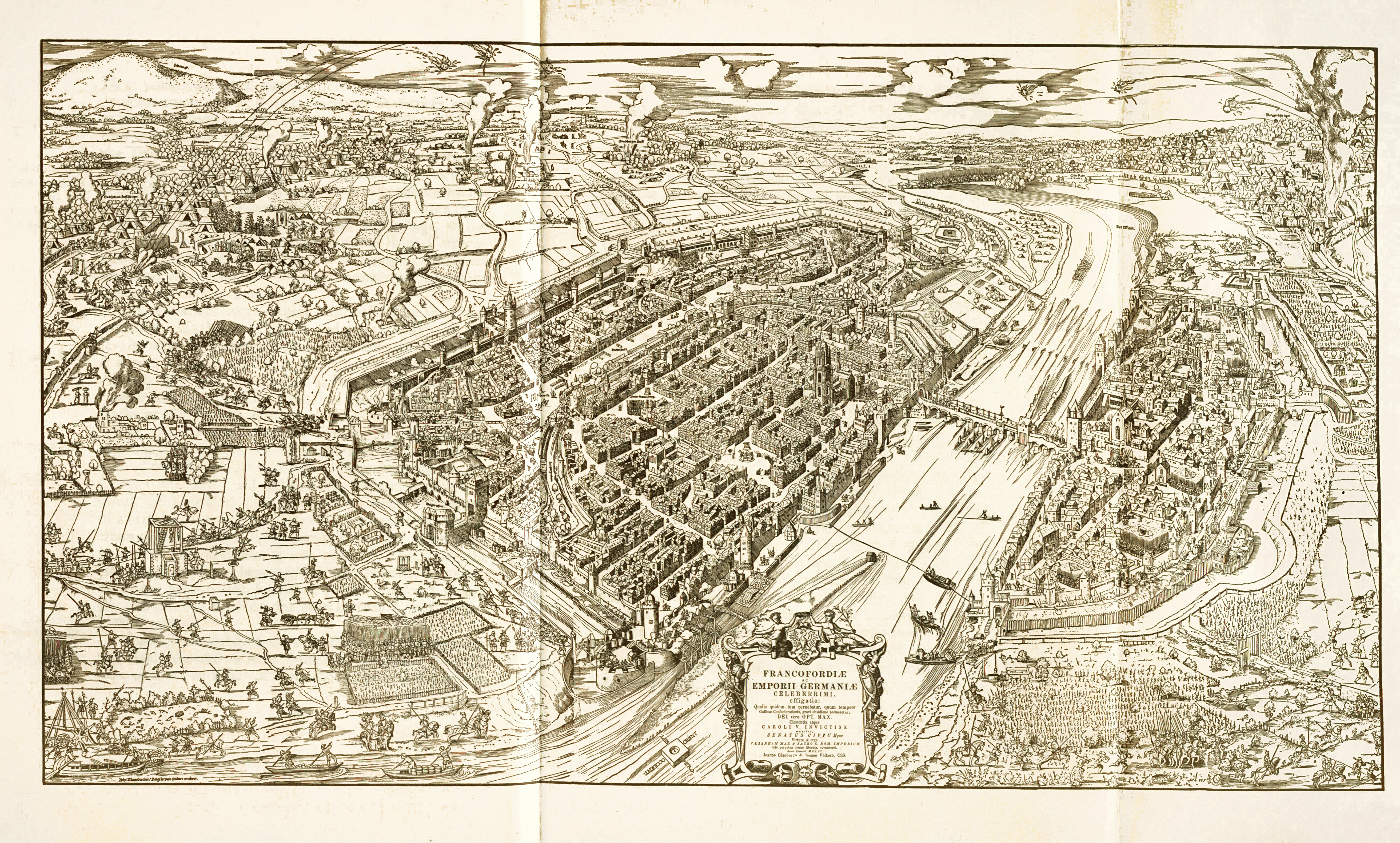 Siege Plan of the City of Frankfurt, after Conrad Faber von Creuznach (1552)